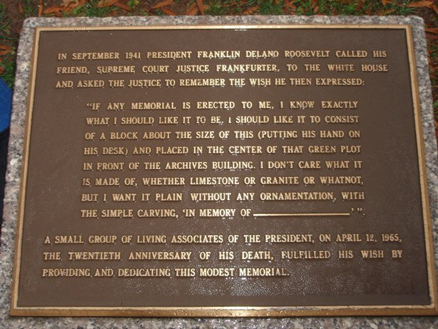 This bronze plaque and a nearby stone monument memorializing Franklin Delano Roosevelt sit on a lawn near the southeast corner of Pennsylvania Avenue NW and Ninth Street NW on the grounds of the National Archives Building in Washington, D.C. This was the first memorial to Franklin Delano Roosevelt that was constructed in Washington, D.C. The plaque expresses Roosevelt's desire for the size and location of the memorial.